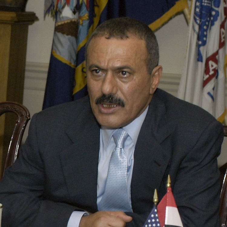 President ALI Saleh (center), of the Republic of Yemen, and his delegation meet with Secretary of Defense Donald H. Rumsfeld and his staff at the Pentagon on June 8, 2004. The two leaders are meeting to discuss defense issues of mutual interest. DoD photo by Helene C. Stikkel.